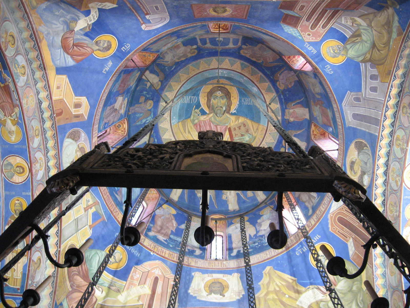 Chapel of Royal Compound, Belgrade